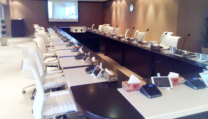 2021 Wireless Conference System in King Saud Medical Center